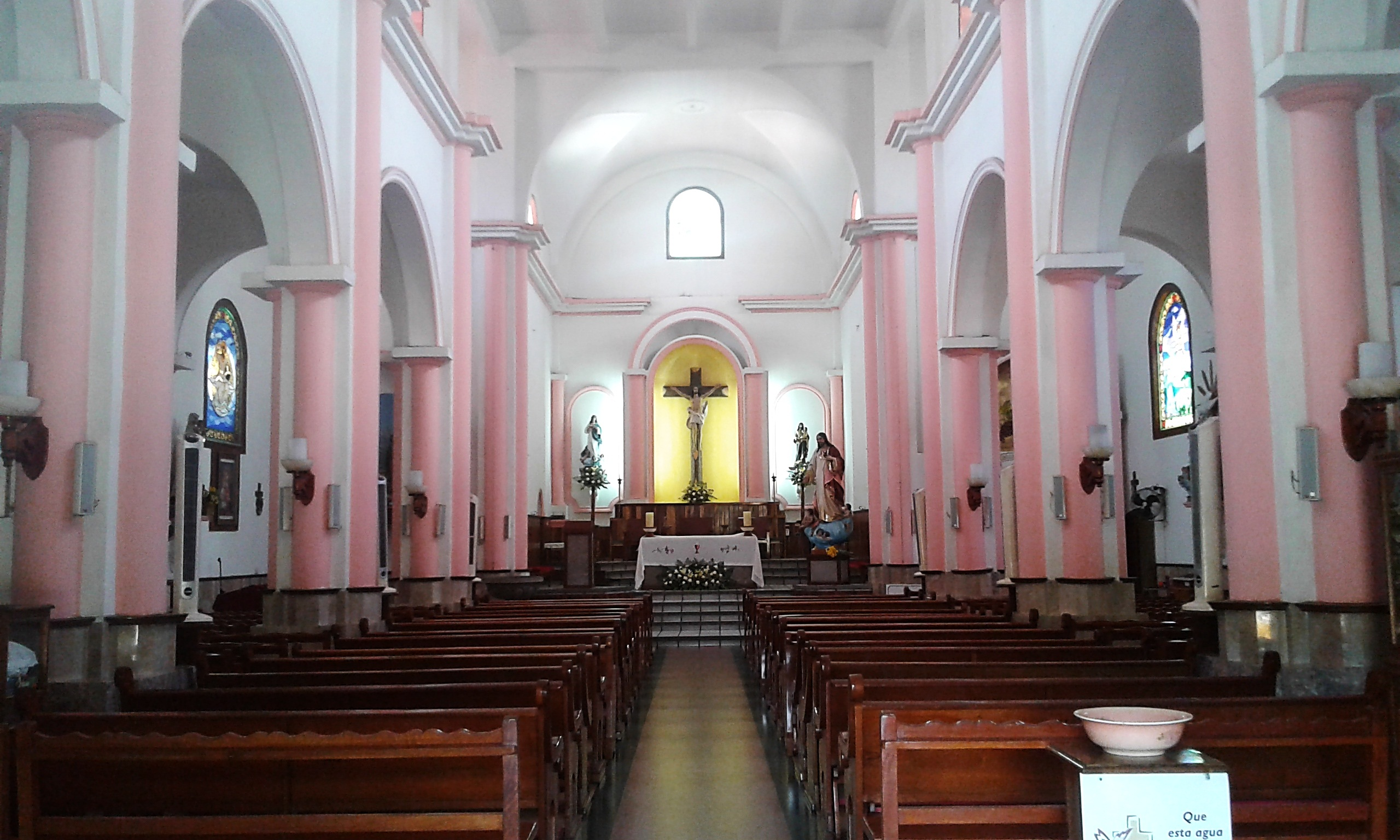 interior of the church of fortín